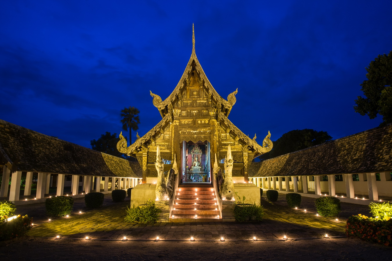 Ton Kwen Temple is an example of small Lanna architecture which is distinguished according to the original tradition. It was built in B.E. 2401 (1858) in the reign of King Gar Varorose Suriyawong. The body of the sanctuary is very magnificent especially the shape and the pattern of the wood carving decorating the banisters extending to the body of the sanctuary which is the stucco of naga. The stucco Buddha Statue in the style of Parng Marn Vichai is situated inside the sanctuary. Besides the sanctuary, there are balconies which are placed specifically surrounding the sanctuary. There is an open (no walls) wooden structure Lanna local Mondhop Chaturamuk with the gable that is constructed in the shape of the grid like the carved wooden partition door and at the saddle there is a stucco of the Ngao. It is an example of a temple that has been conserved since 2520 (1977) continuously until the present.